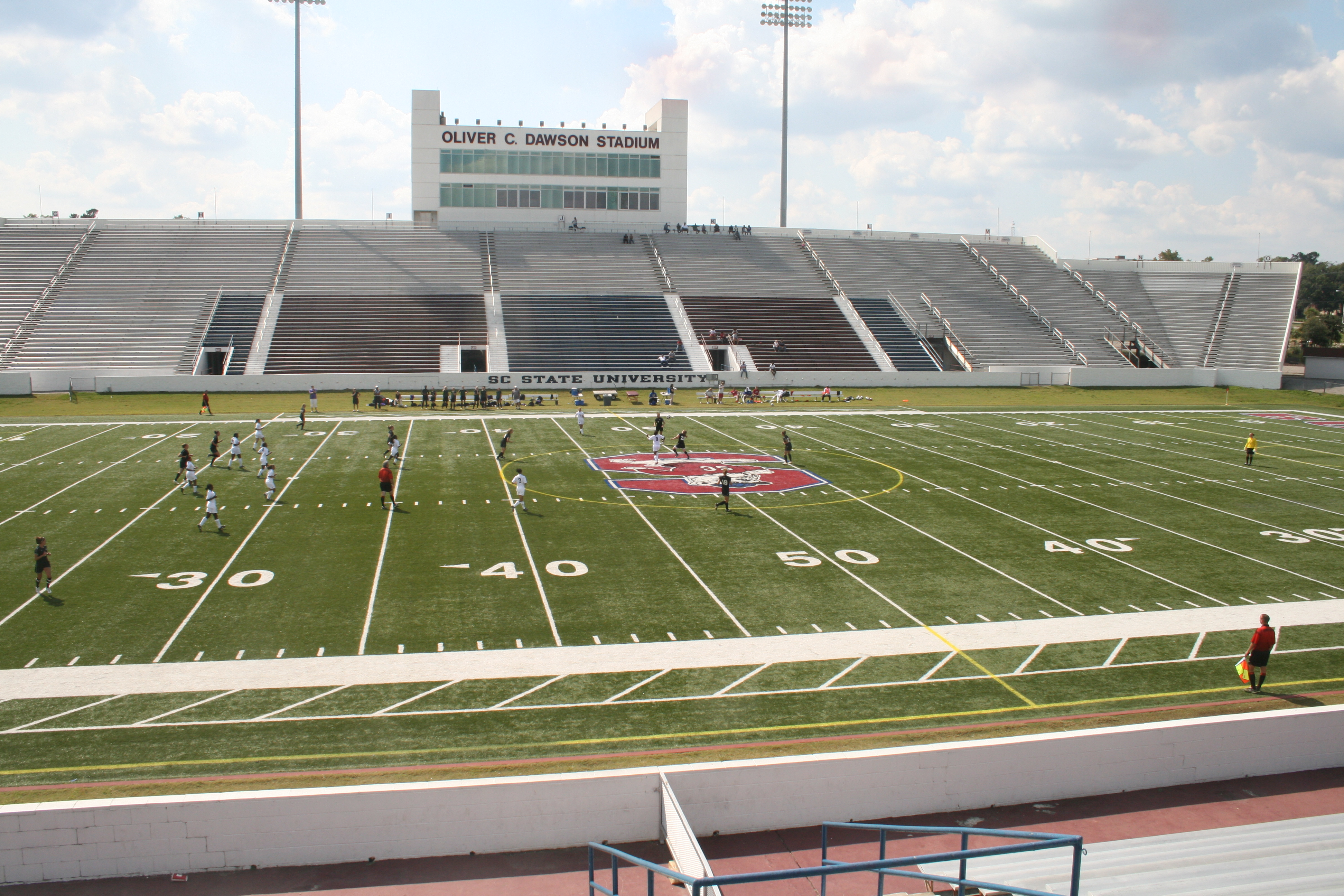 The Oliver C. Dawson Stadium of Orangeburg, South Carolina during a women's soccer game.